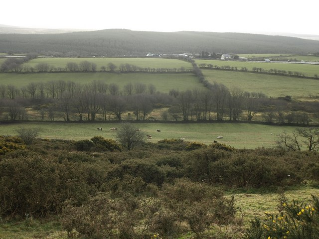 Valley, Hendra Looking from access land on Hendra Downs across a valley towards the A30. The buildings at Cannaframe Farm on the main road are in SX2078; Halvan Plantation is the large wood beyond.